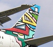 Cropped from Image:Ethnic.ba.b737.ndebele.arp.jpg Photographed by Adrian Pingstone and released to the public domain.